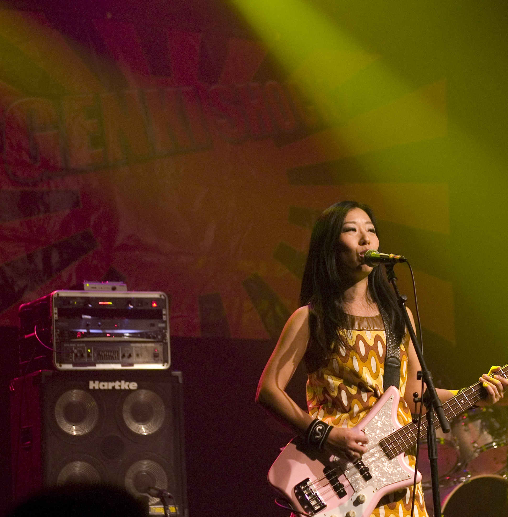 Shonen Knife